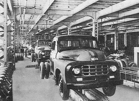 Toyota Motor Plant in 1950s